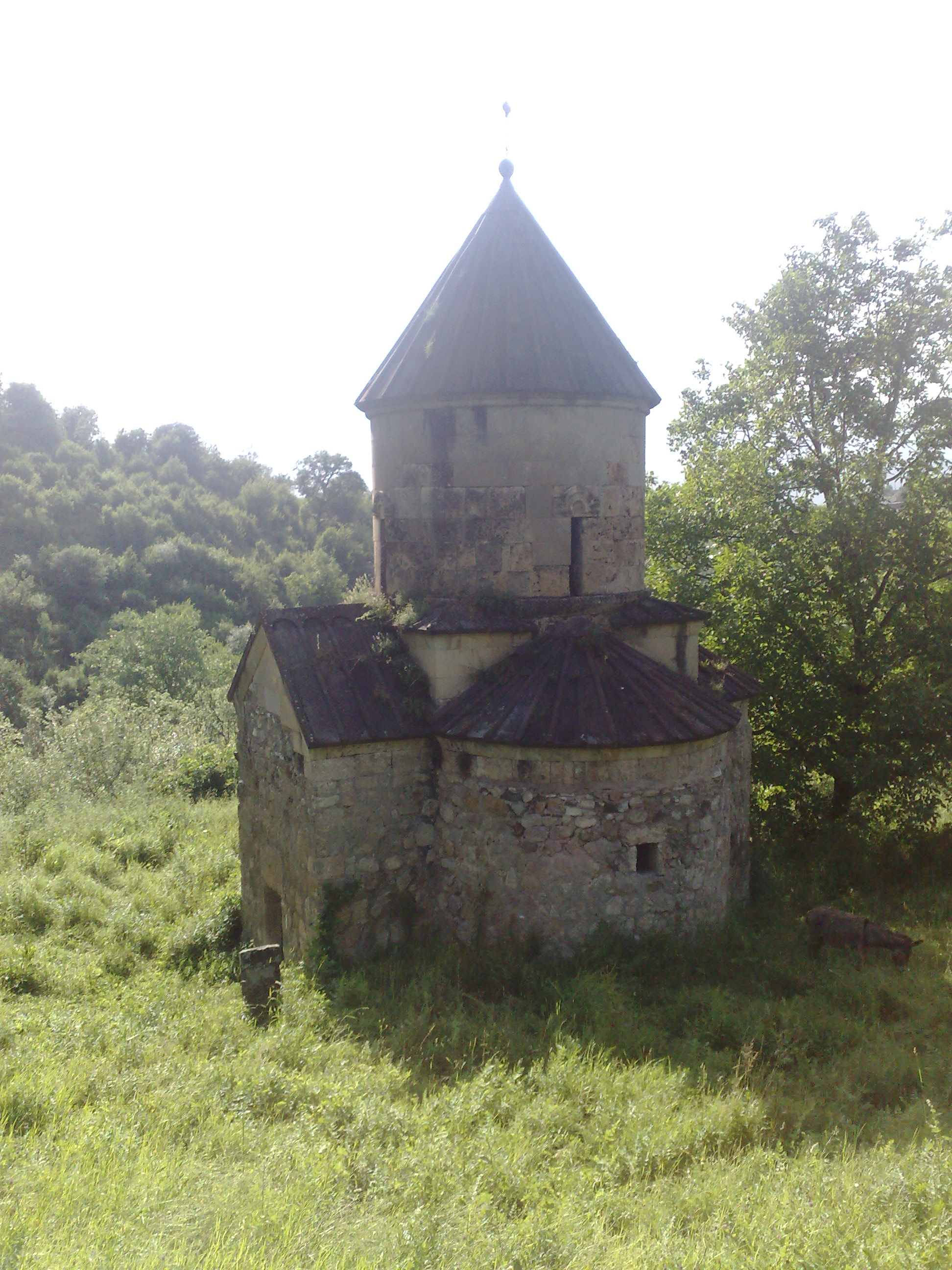 Chapel Crvizi. The General view. Armenia, Tavush state, Lusahovit village